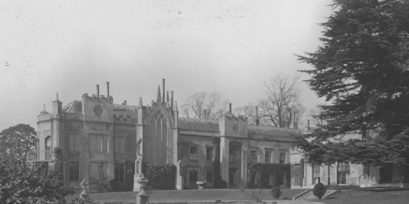 Photograph of Sandleford Priory, 1906, by Evelyn Elizabeth Myers (c. 1872-1909).